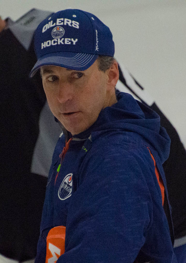 Frederic Chabot at an Edmonton Oilers practice, Sept. 27, 2014